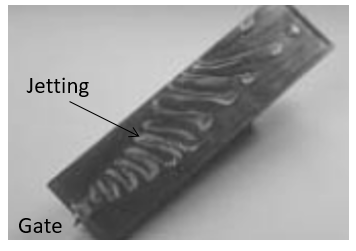 Jetting (Injection Moulding Defect)